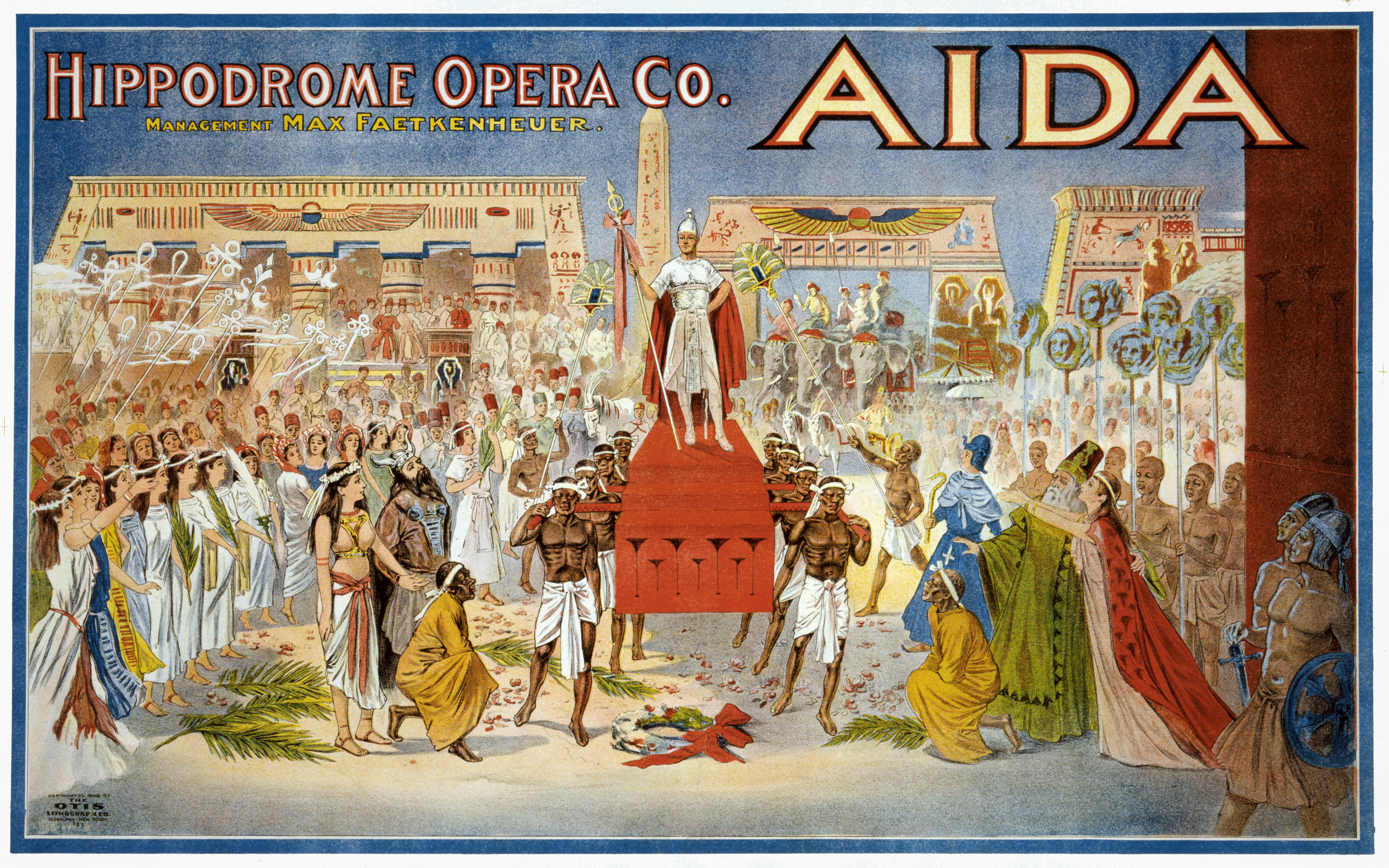 1908 poster for Giuseppe Verdi's Aida, performed by the Hippodrome Opera Company of Cleveland, Ohio.[1]